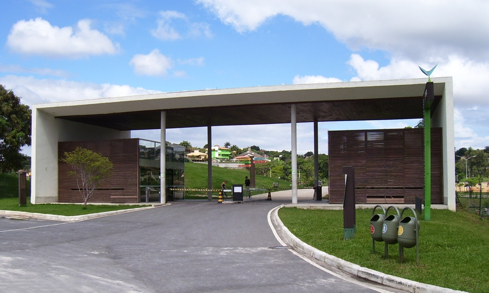 Entry gate to Parque Ecológico, in Belo Horizonte, Minas Gerais state. Park was designed by Roberto Burle Marx.